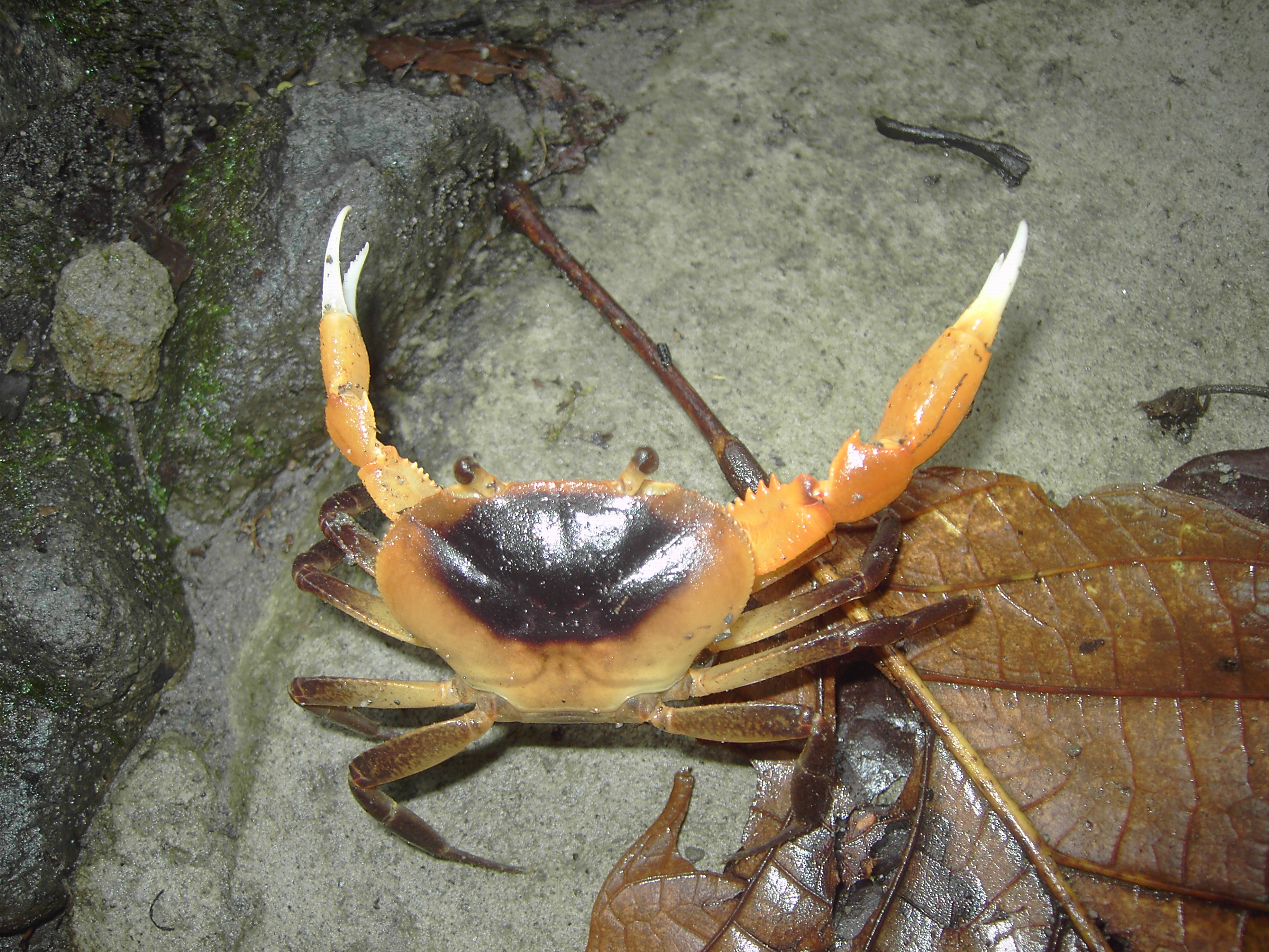 Siwik at Emerald Pool, Dominica, W.I.